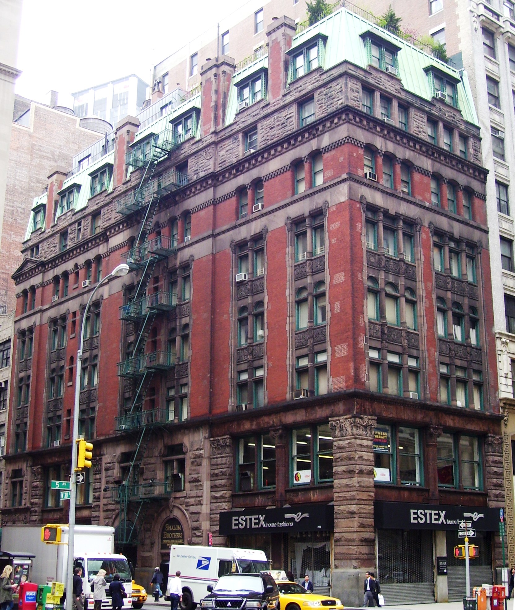 The Wilbraham at 1 West 30th Street or 284 Fifth Avenue in the NoMad neighborhood of Manhattan, New York City was built in 1888-90, and designed by David & John Jardine in Romanesque Revival style as "bachelor flats", which were converted to apartments in the mid-1930s. (Source: Guide to NYC Landmarks (4th ed.))